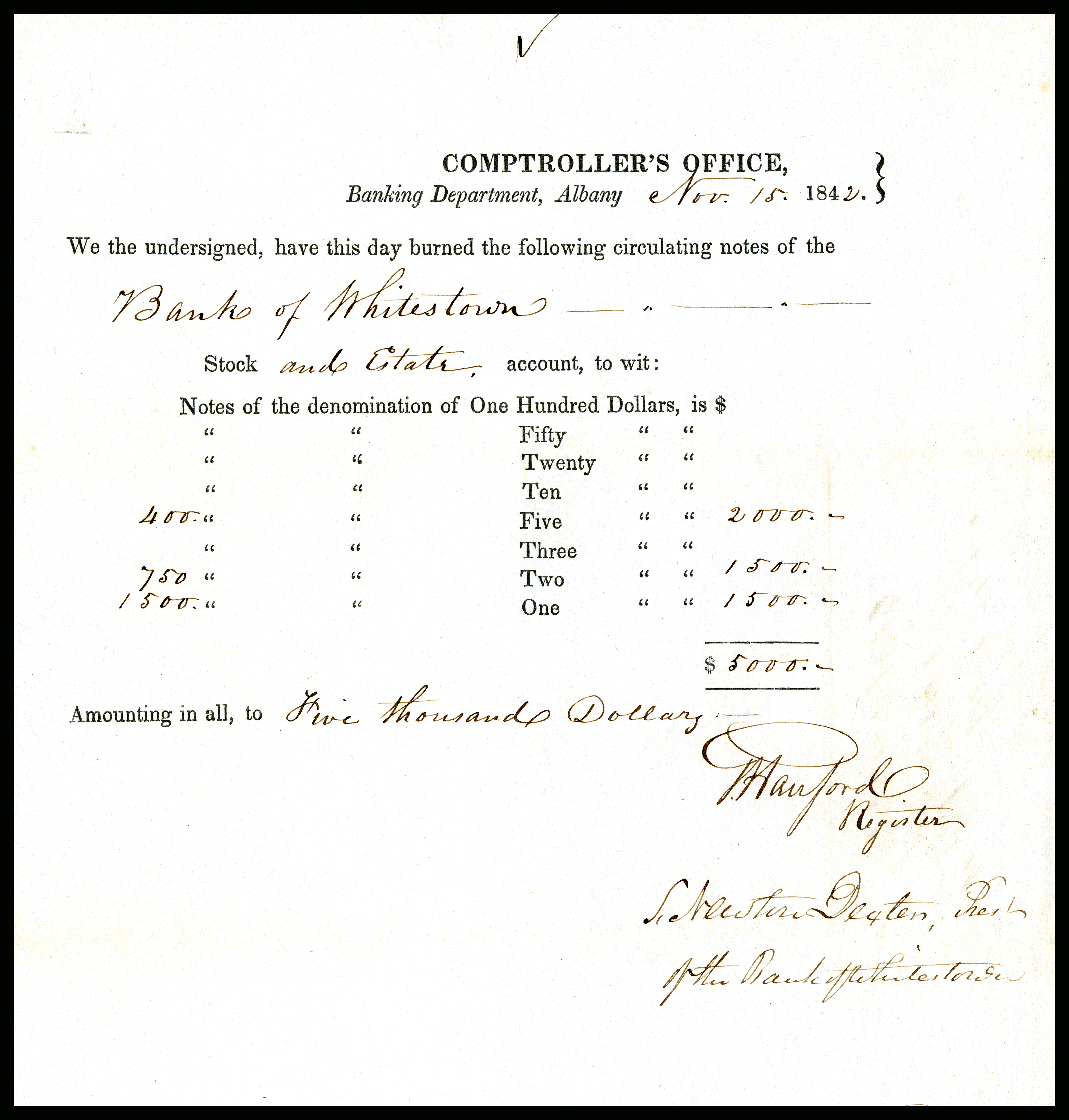 A receipt from the Albany, New York Comproller’s Office certifying that $5,000 from the Bank of Whitestown had been legally destroyed by burning.